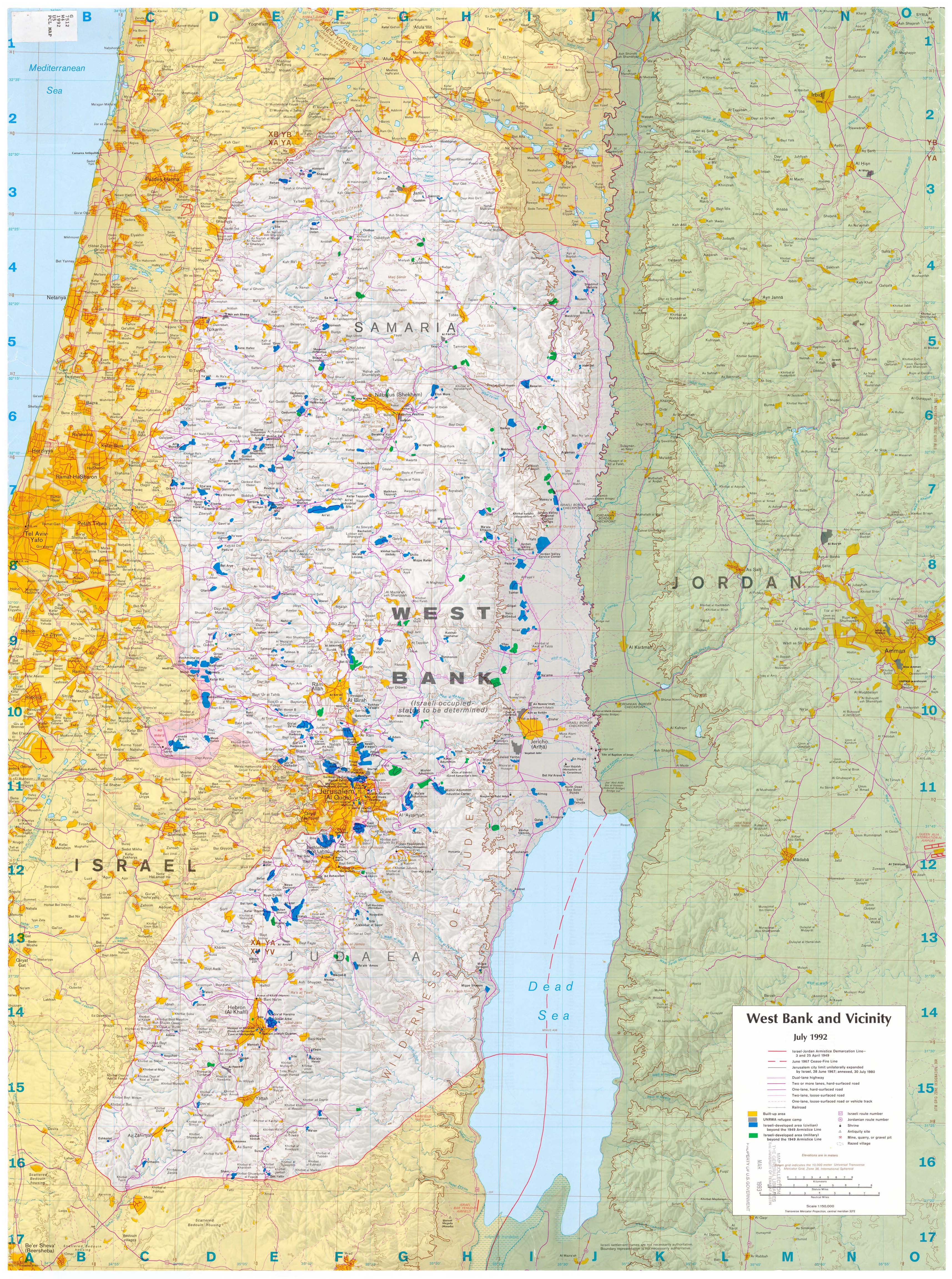 Map of the West Bank.